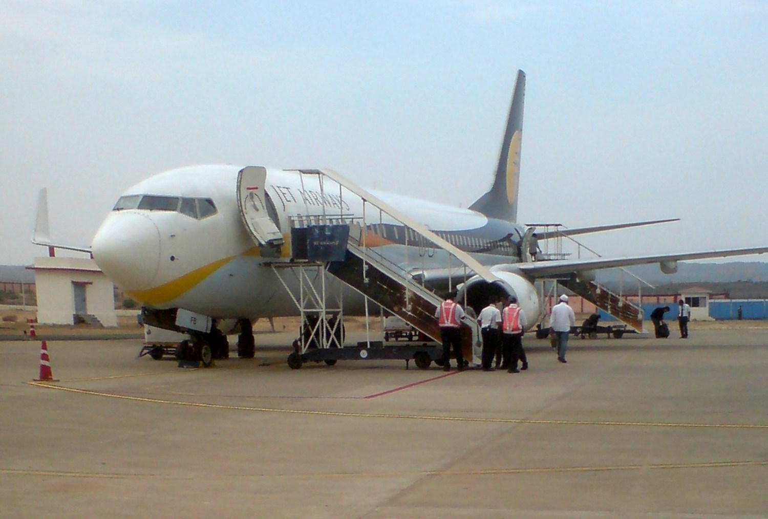 A Jet Airways Boeing 737 at Bhuj Airport Civil Enclave